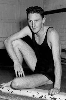 Jean Stewart, bronze medal-winner in the 100-metre backstroke at the 1952 Helsinki Olympics, later married the only other swimmer on the New Zealand team, Lincoln Hurring. This souvenir photograph of the two Dunedin swimmers was taken before their departure for the games.